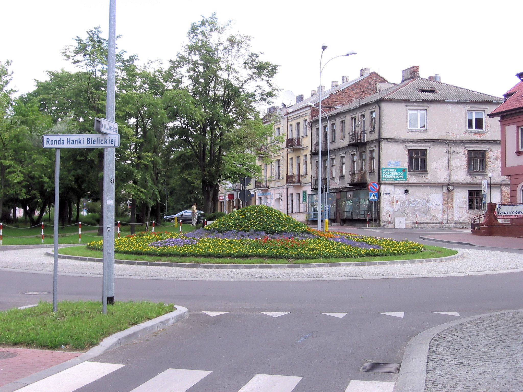 Roundabouts of Hanka Bielicka in Łomża